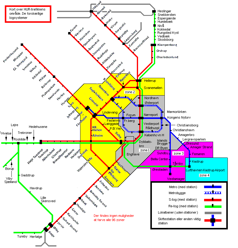 Copenhagen urban rail system map, shows the central three major rail-system and the perifer forth (without stations , dued to lack of space). Purpose is to show how the Re-trains (green), S-train (red), Metro (blue) and Metro under present construction (blue and white) interacts. Stations, junction stations and other larger stations specially marked. There are about 95 ticket fare zones, and all cant be showed, but the central four zones are marked in different colours. (All names of the new metro circle line is at present not decided or unknown to me) Made in ms-paint carefully compared with other maps where the systems are separated. This is third update but It seems that the PNG-format is better then the JPG in a case like this. Made by Pontus Eriksson.